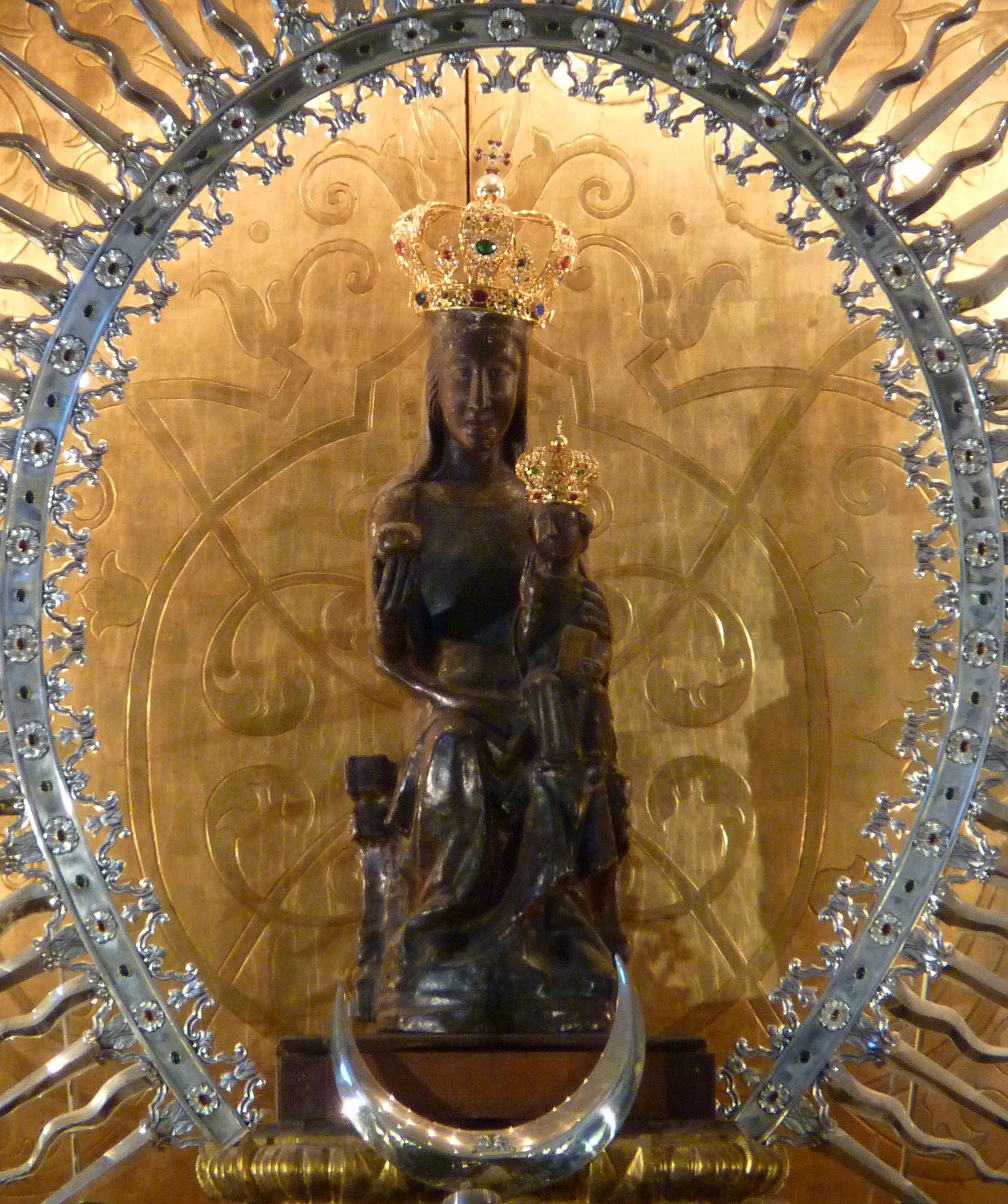 Our Lady of Atocha. Blackfriars (Madrid).